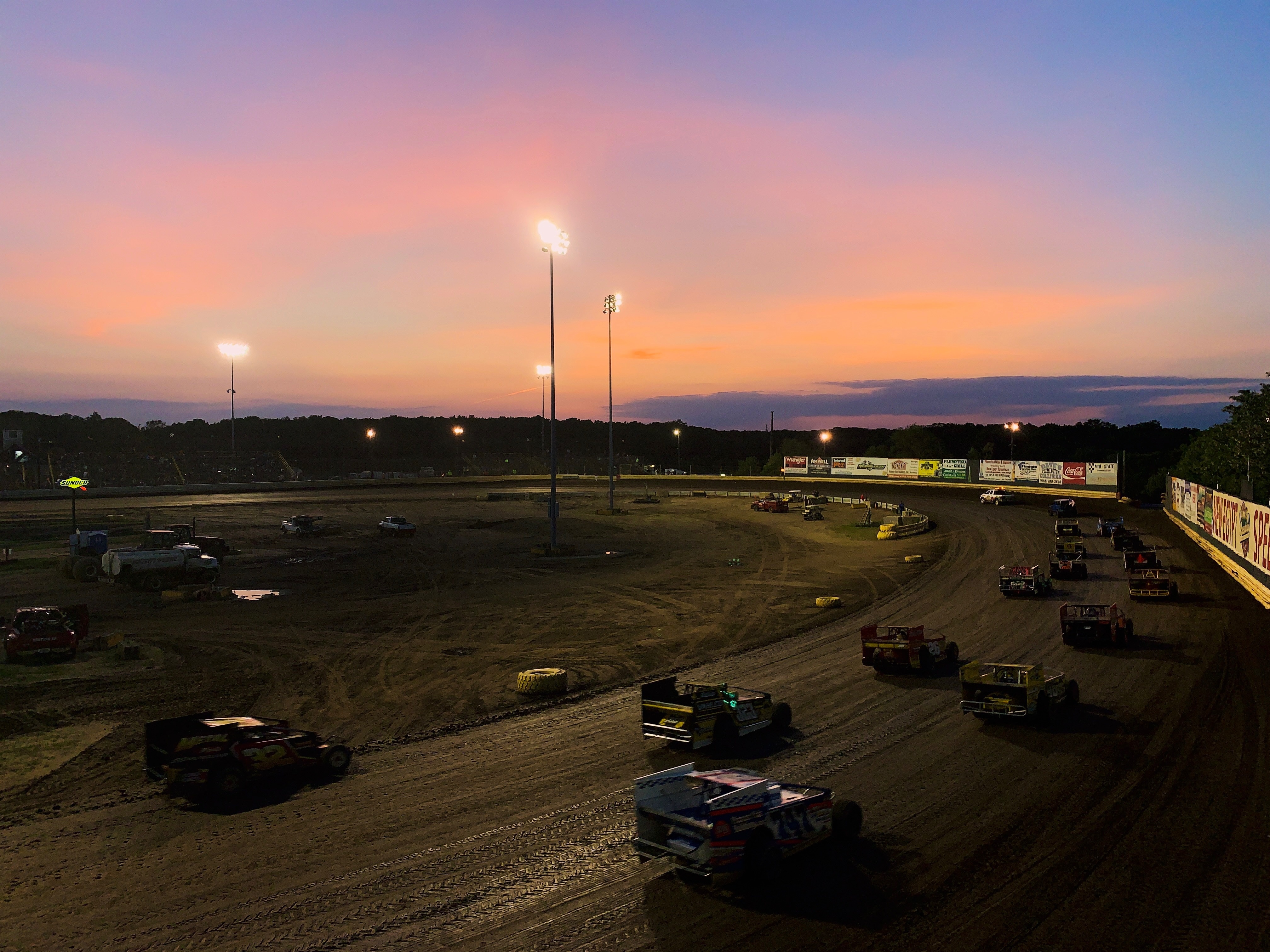 Saturday Night at New Egypt Speedway